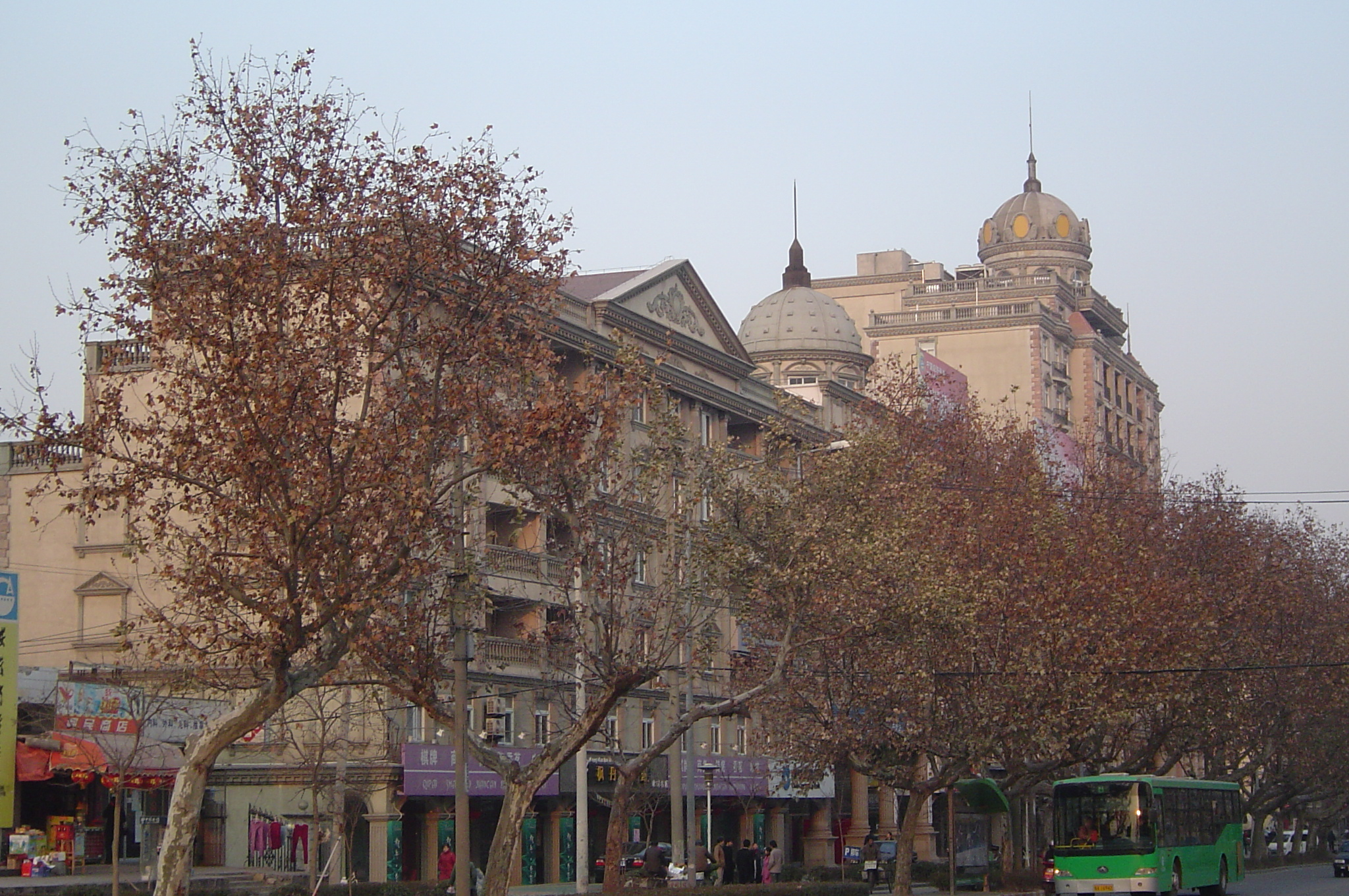 Hefei, Anhui province, China. January 13, 2005.